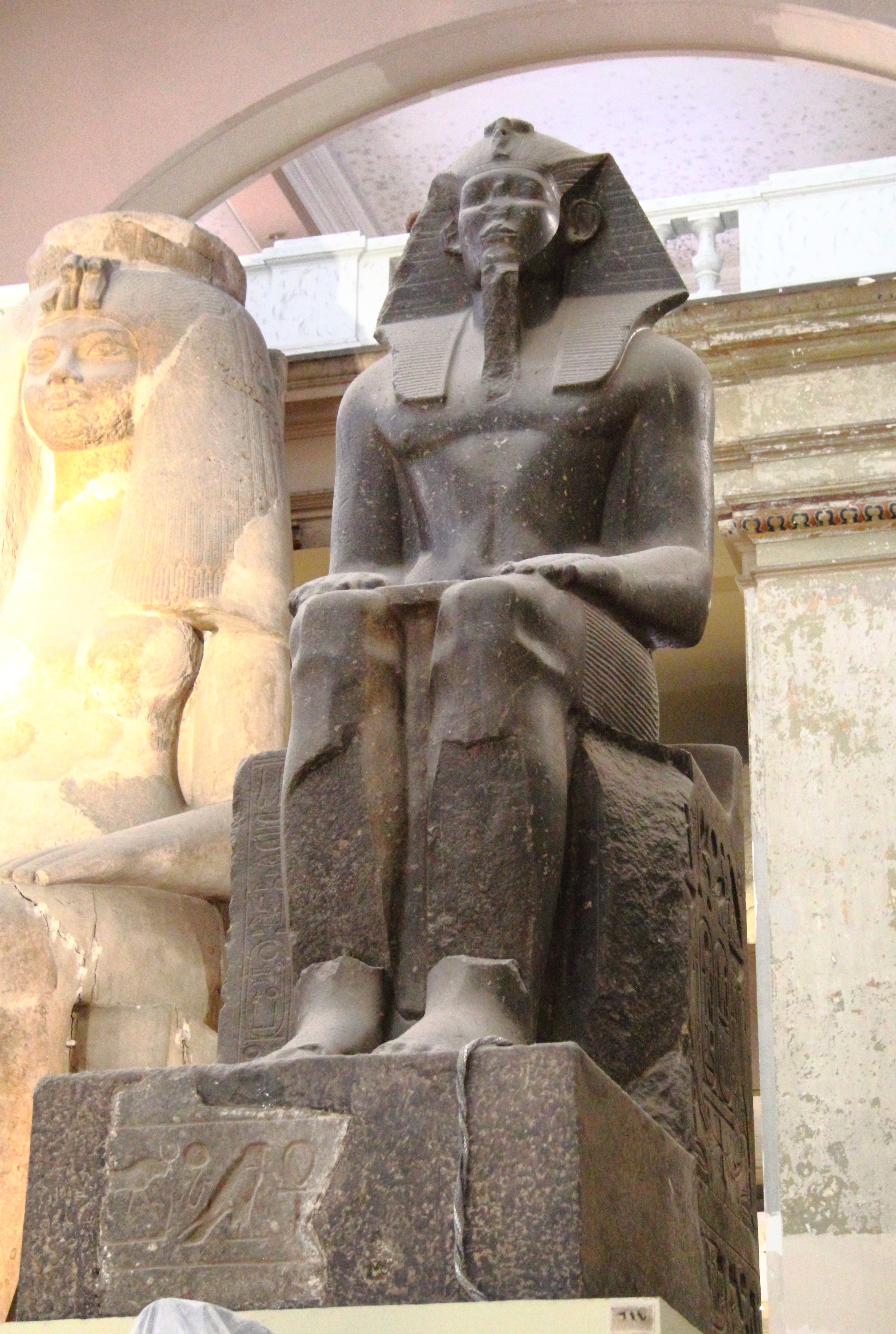 Egyptian Museum Cairo: Colossal statue of the ancient Egyptioan king Imyremeshaw, granite, from Tanis, Middle Kingdom, Thirteenth dynasty, 18th century BC